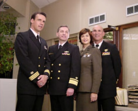 RADM Don Guter, JAGC, USN, recently participated in filming a segment of the JAG TV show. During a site visit to San Diego, he made a stop at Paramount Television Studios in Valencia, California, to complete the filming of "Liberty". Here are still photos of his preparation for the show. In the series "Commander Harmon "Harm" Rabb, Jr. (David James Elliott) is a daring Navy officer and lawyer who works together with partner Lt. Colonel Sarah "Mac" MacKenzie (Catherine Bell), “JAG” Admiral Chegwidden (John M. Jackson) and attorney Lieutenant Bud Roberts (Patrick Labyorteaux)" (not shown here).